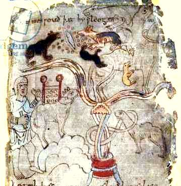 3297909 Cotton Vitellius A. XV, f.101r, Three dog-like ants attacking a tethered camel, man in a tunic, illustration from Beowulf, from the \'Nowell Codex\' (ink on parchment) by English School, (11th century); British Library, London, UK; ( .: A half-page miniature of three gold-digging, dog-like ants attacking a tethered camel, with a man in a tunic on the left with a camel, and a young camel tied to a tree Beowulf Circa 1000 Language: Anglo-Saxon Source/Shelfmark: Cotton Vitellius A. XV, f.101 .); © British Library Board. All Rights Reserved; English, out of copyright. PLEASE NOTE: Bridgeman Images works with the owner of this image to clear permission. If you wish to reproduce this image, please inform us so we can clear permission for you.